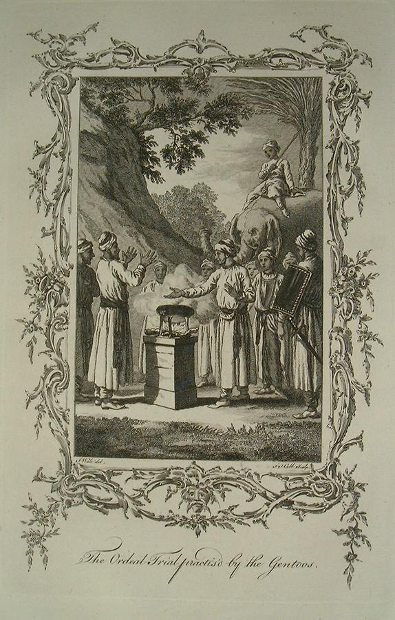 "The Swing on which the principal Persons in India pass away much of their Time," a copper engraving, 1770; *another version, 1778*; also: "The Ordeal Trial practised by the Gentoos," 1770* Source: ebay, Dec. 2005